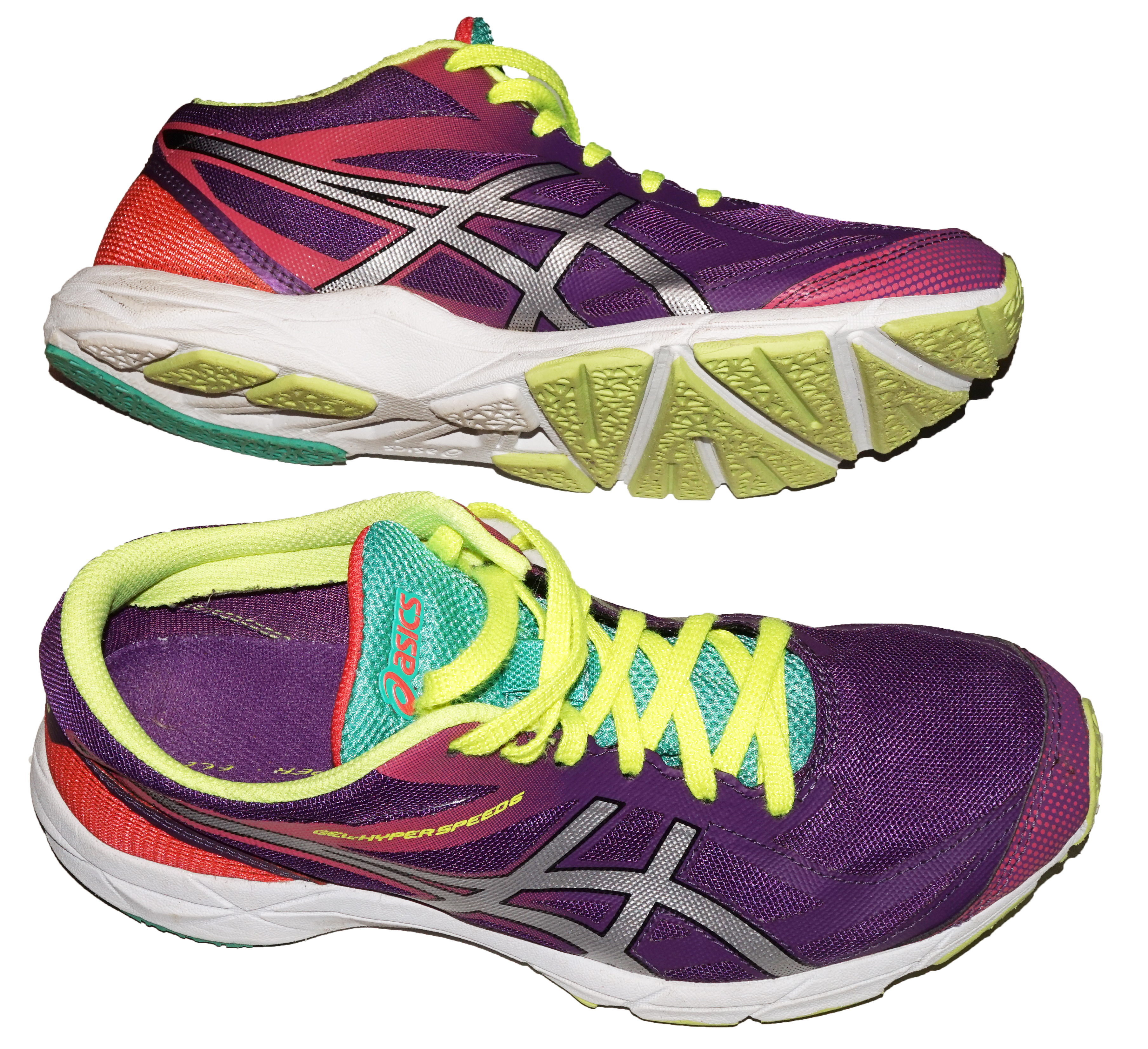 Light weight running shoes Asics Hyperspeed (about 132 grams).